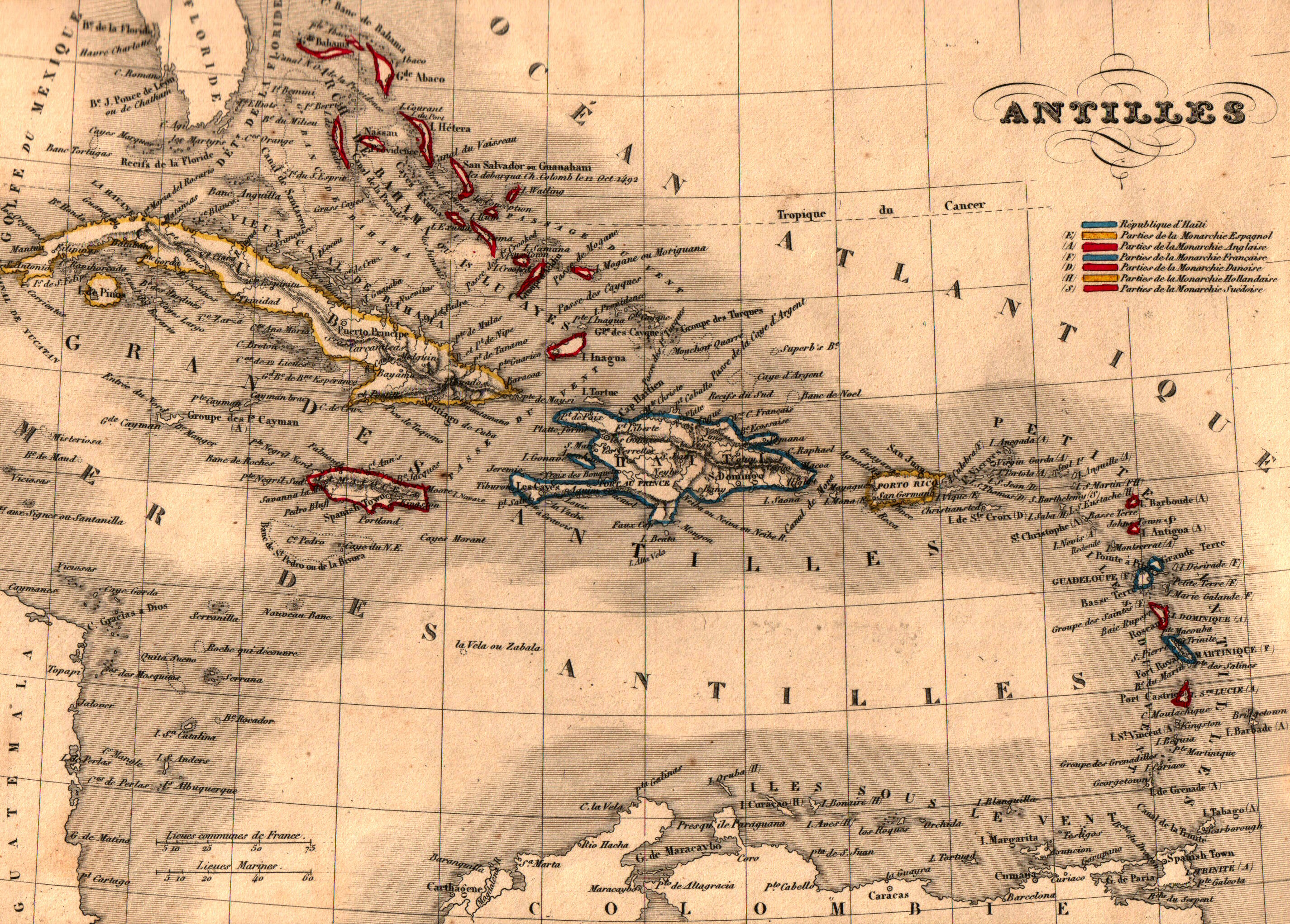 Map of Antilles (wp-EN) / Caribbean (wp-EN) with french names made by Alexandre Vuillemin in 1843 extracted from his “Atlas universel de géographie ancienne et moderne à l'usage des pensionnats”.